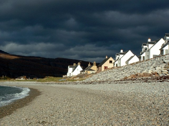 Holiday houses, Ardmair on Loch Broom